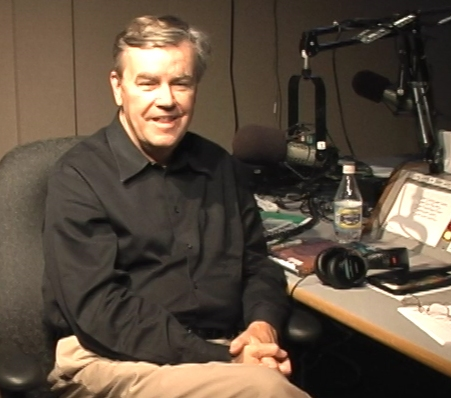 Radio Talk Show Host Jon Elliott